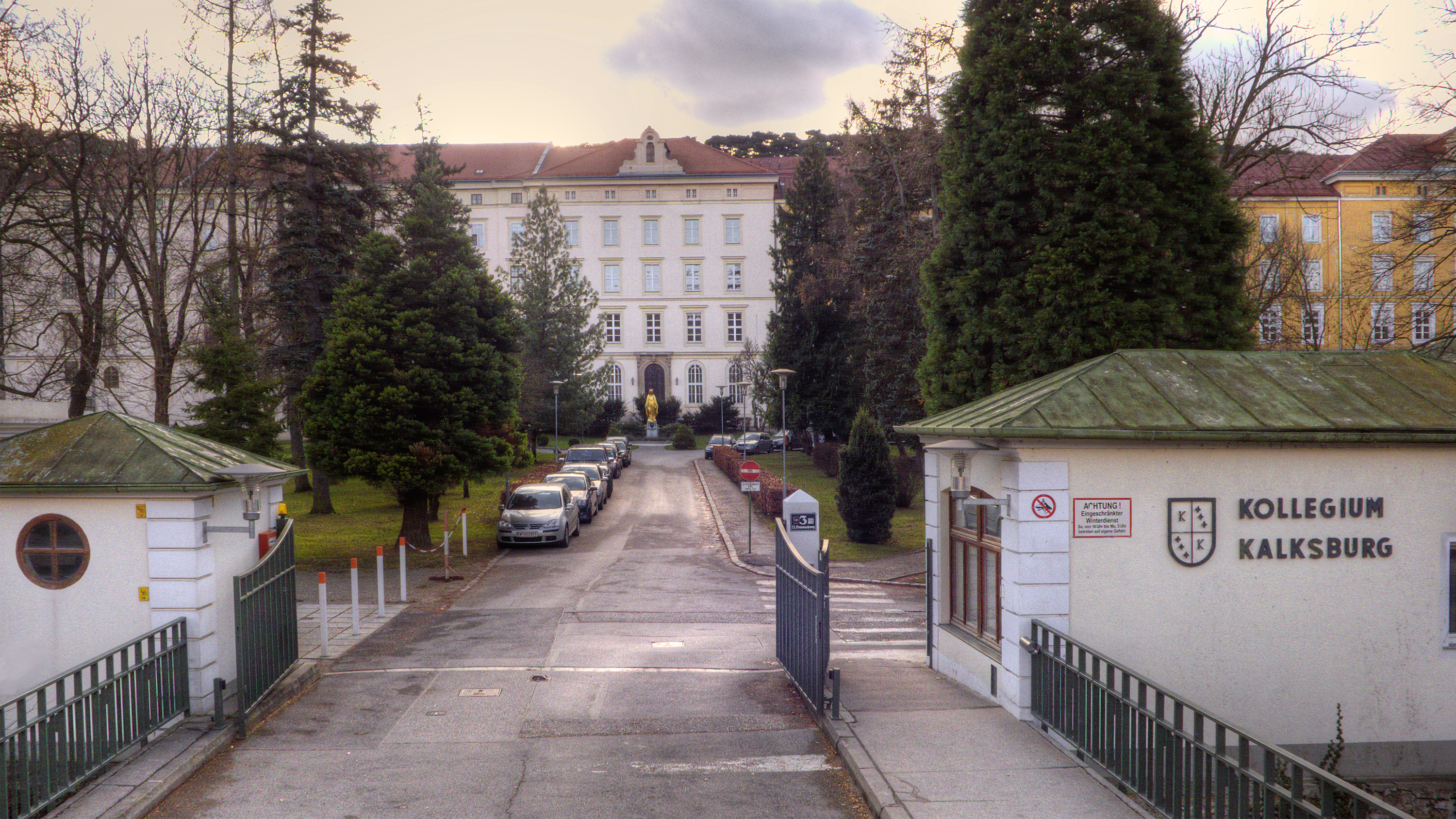 Vienna Liesing: Kollegium Kalksburg